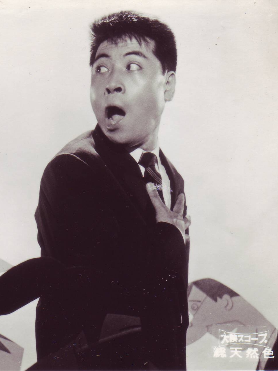 Hajime Hana. Studio Still of the 1960 Japanese film "Ashi ni sawatta onna (The woman who touched a foot) " (Daiei Film).